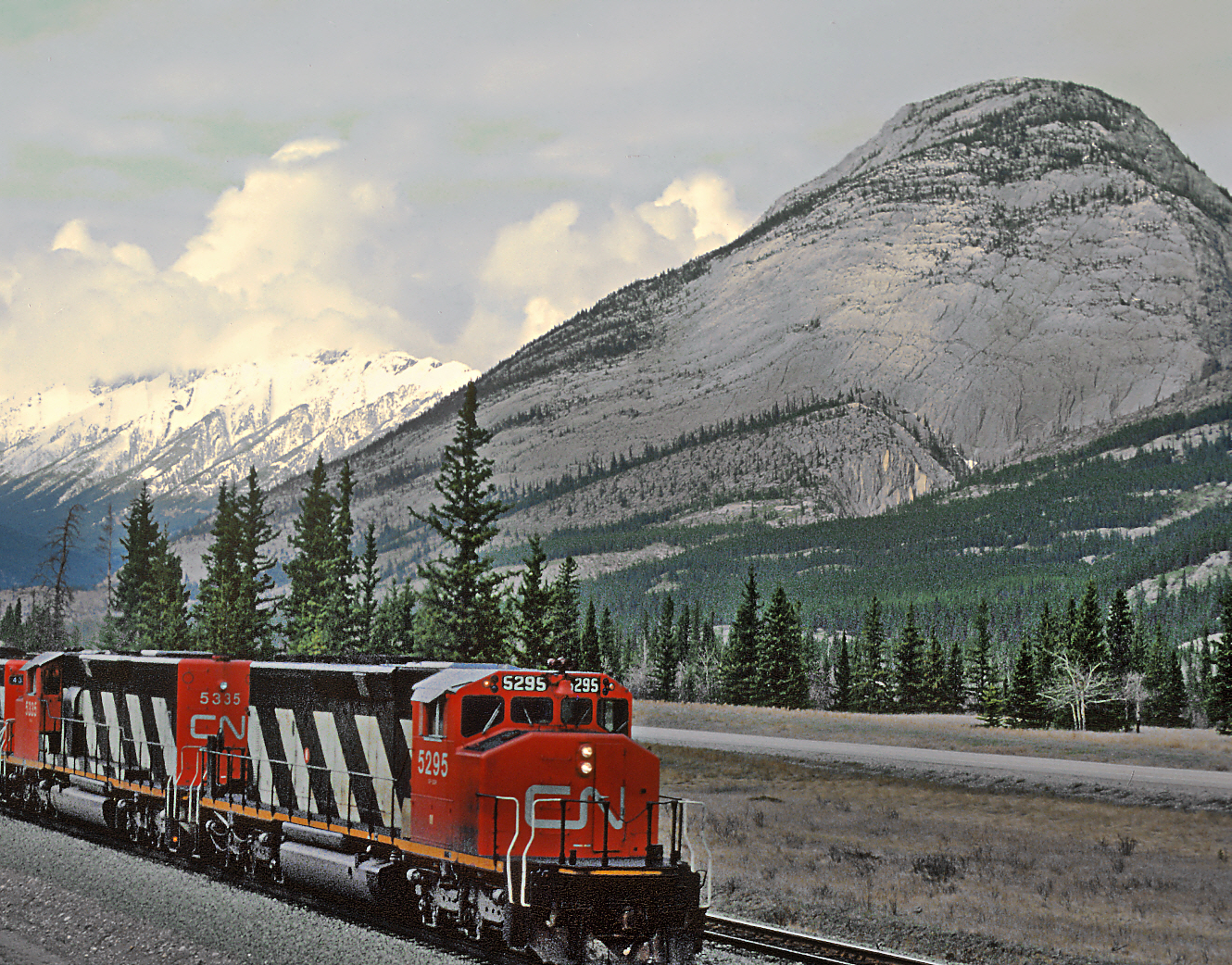 Morro Peak seen from the Athabasca River Valley in Jasper Park, Canada